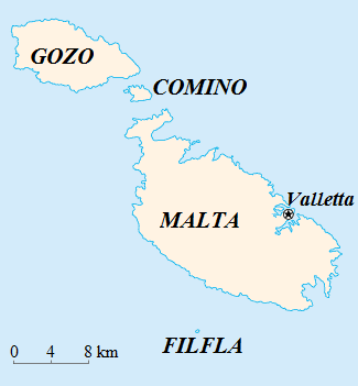 A map of Maltese Islands with just the islands and Valletta marked.